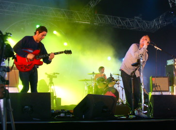 The Sunshine Underground